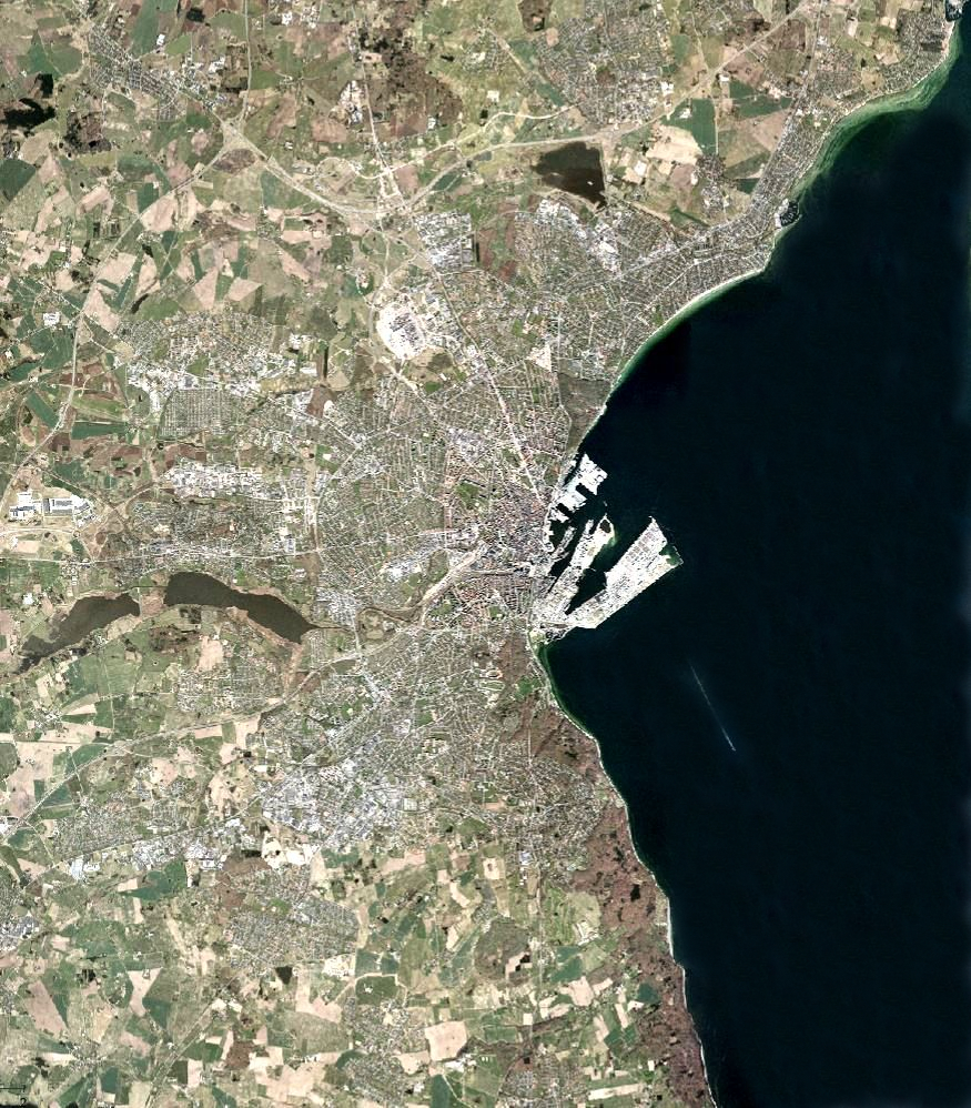 Aerial view of Aarhus 2015